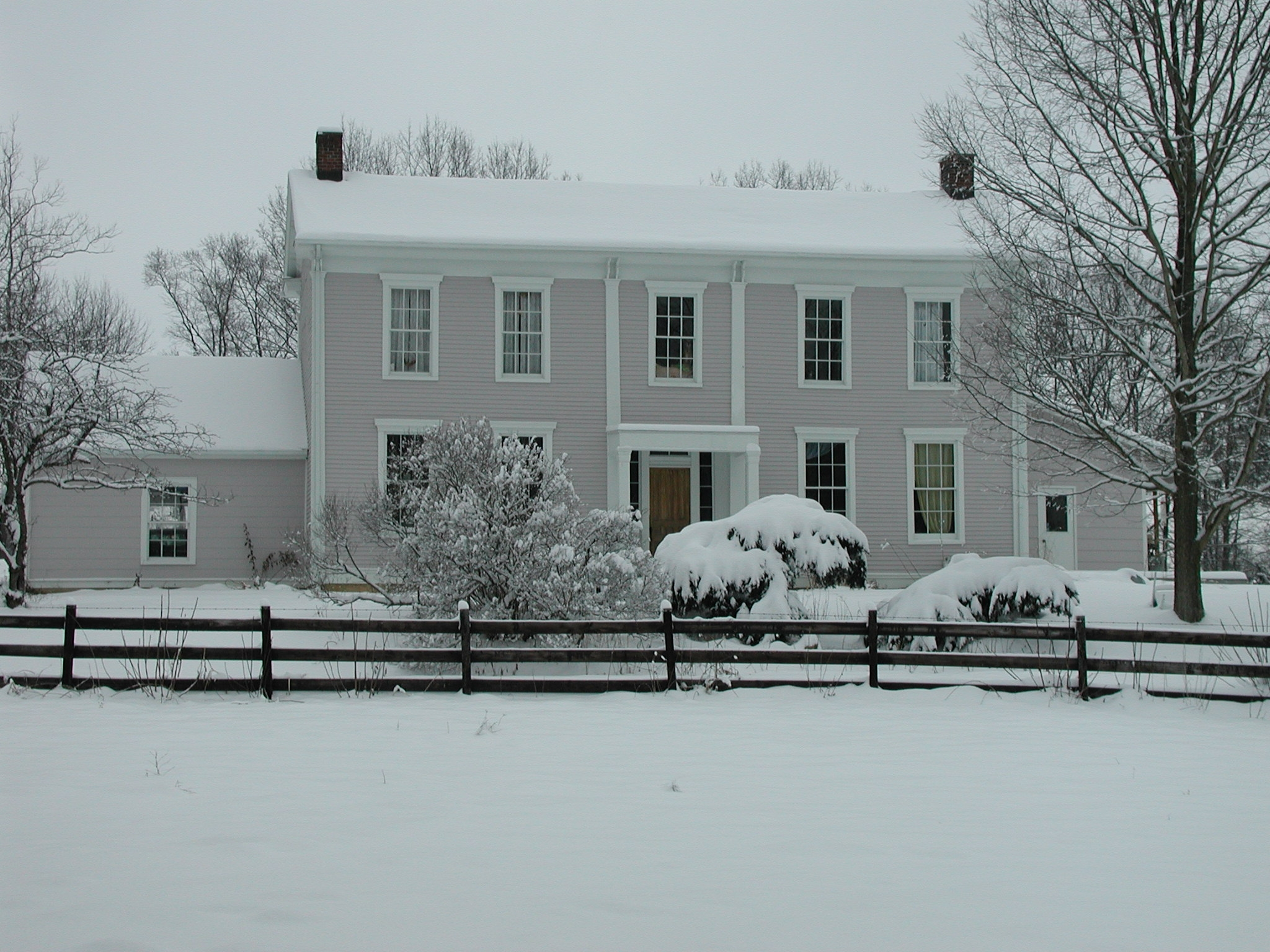 In the snow